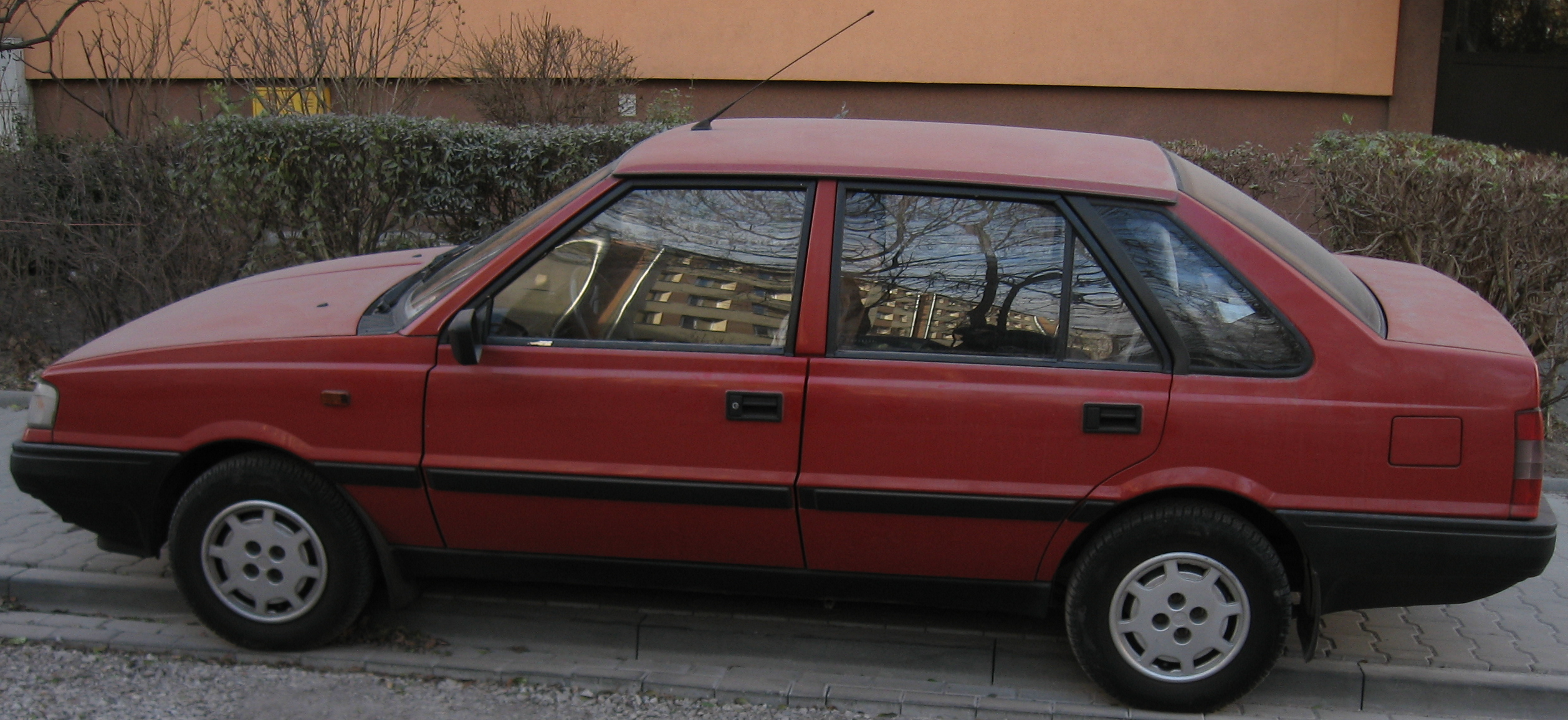 Red FSO Polonez Atu 1.4 GLI 16V Multipoint injection in Kraków.